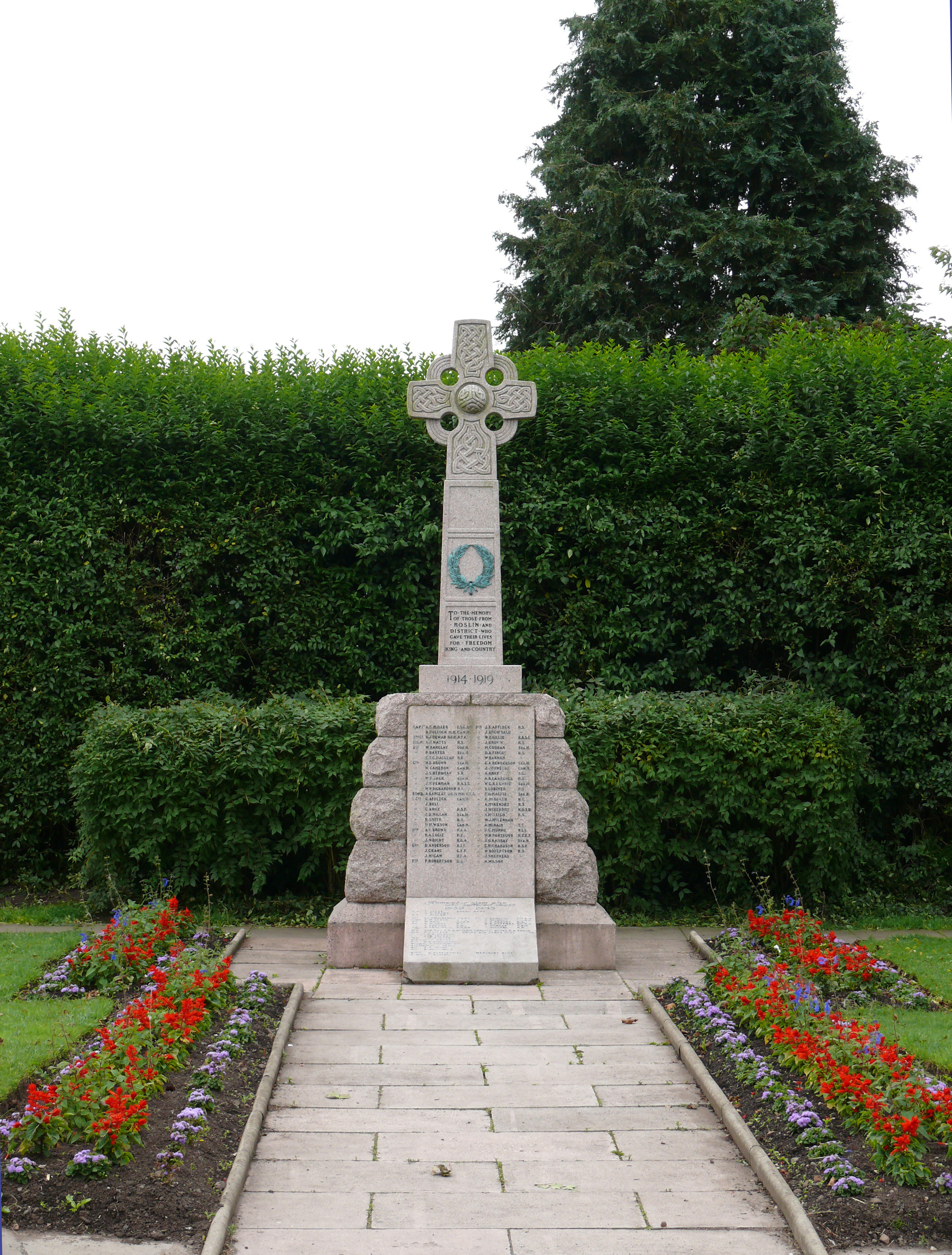 War Memorial in Penicuik Road, Roslin, Midlothian.